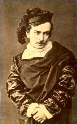 Petros Adamian (1849–1891) in role of Hamlet.